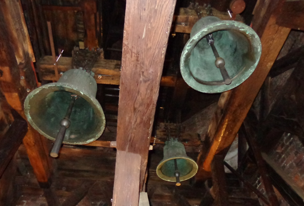 Wawel - Silver Bells